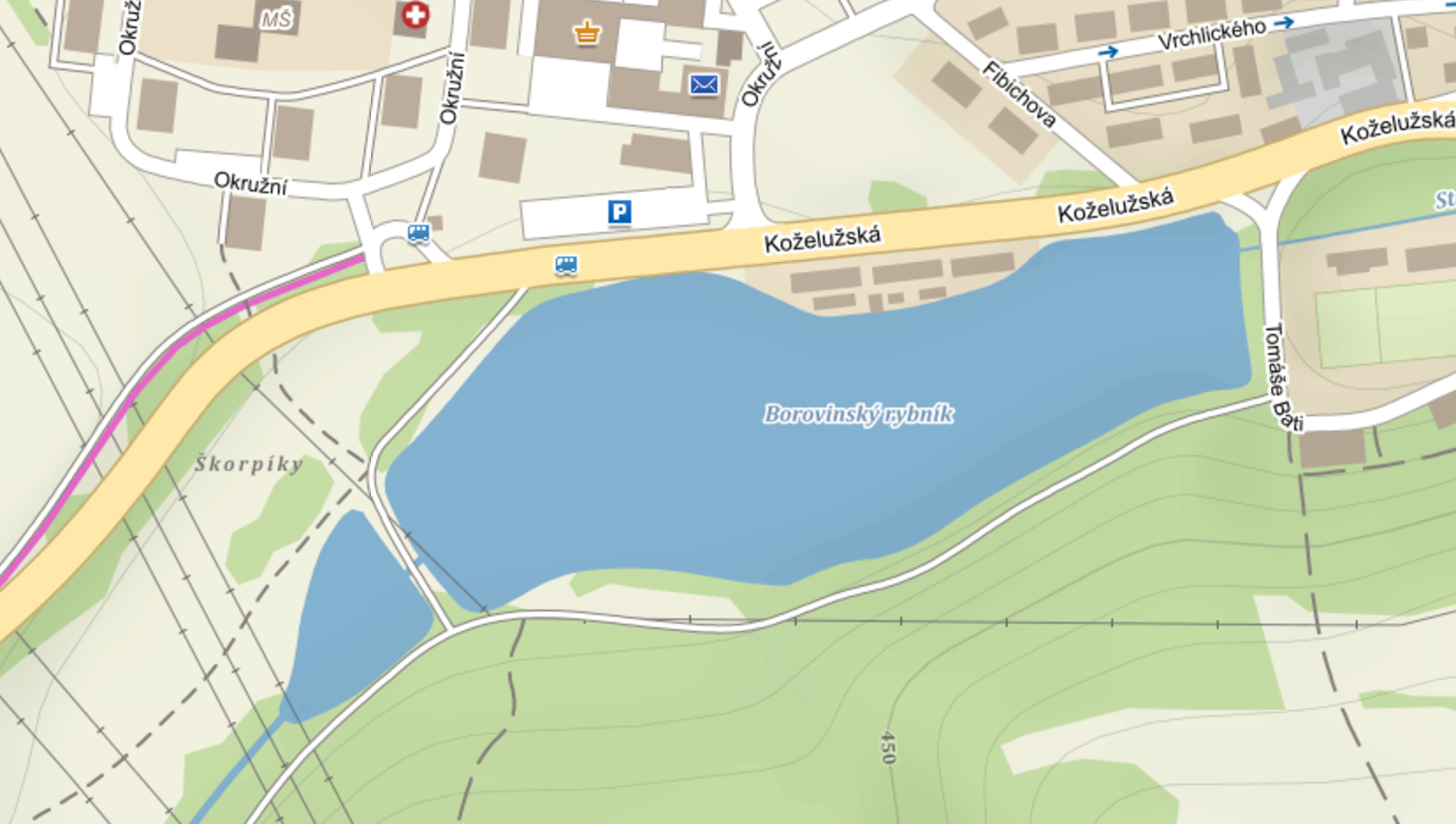 Mapy.cz - touristic map - Borovinský rybník